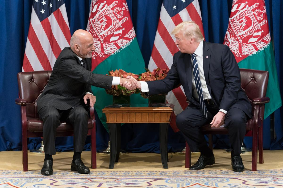 President Donald J. Trump and President Ashraf Ghani of Afghanistan at the United Nations General Assembly (Official White House Photo by Shealah Craighead)